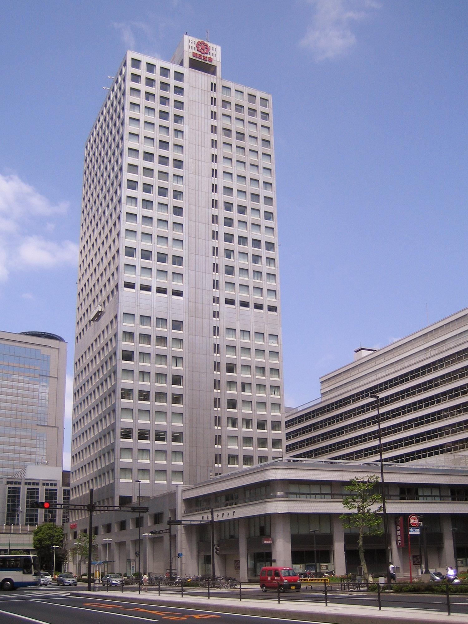 Asahi Mutual Life Insurance Company (朝日生命保険), in Chuo, Tokyo, Japan